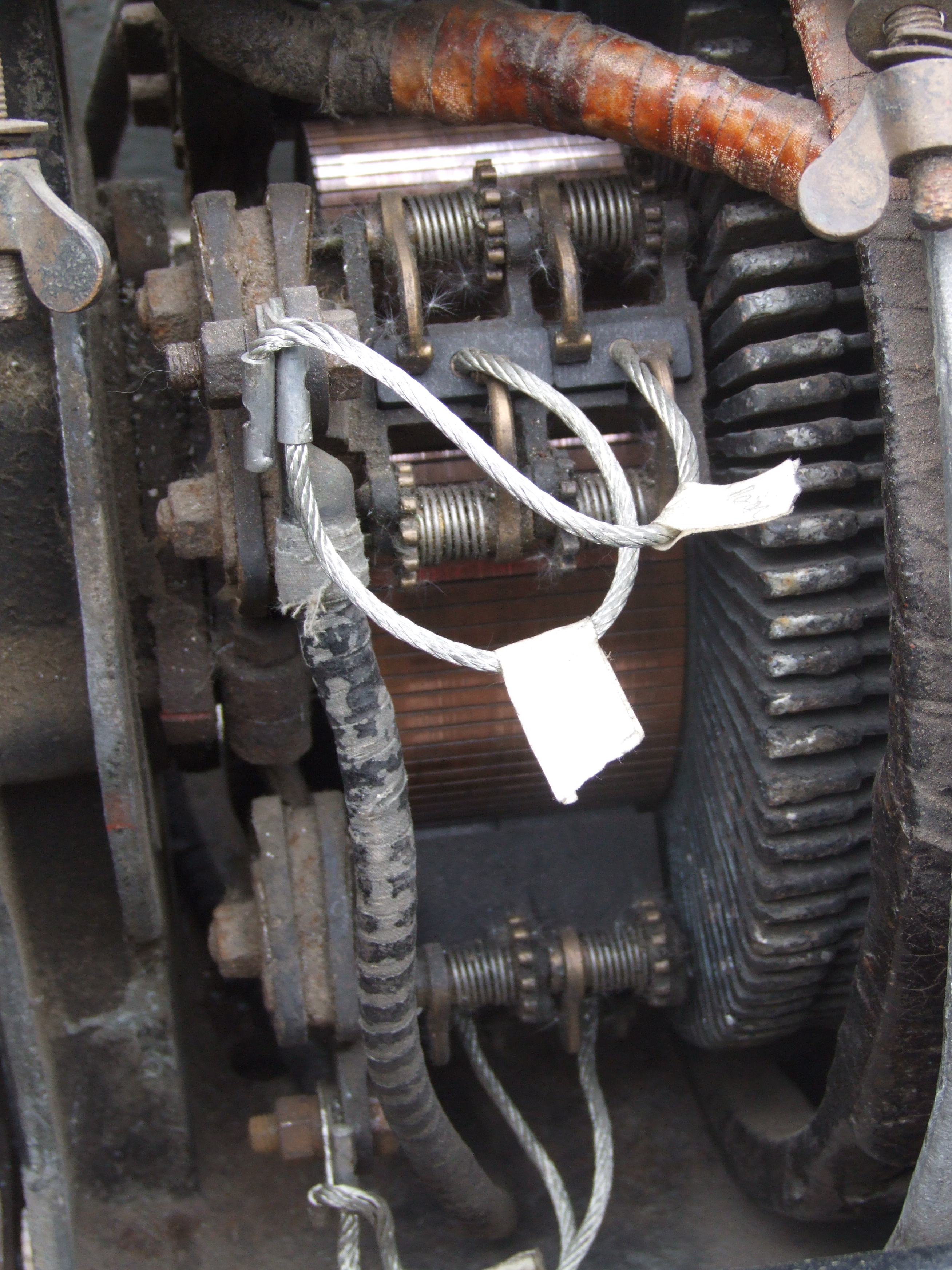 Commutator of the dynamo of the 1923 Tilling-Stevens Petrol-electric chassis at Amberley Museum and Heritage Centre, West Sussex